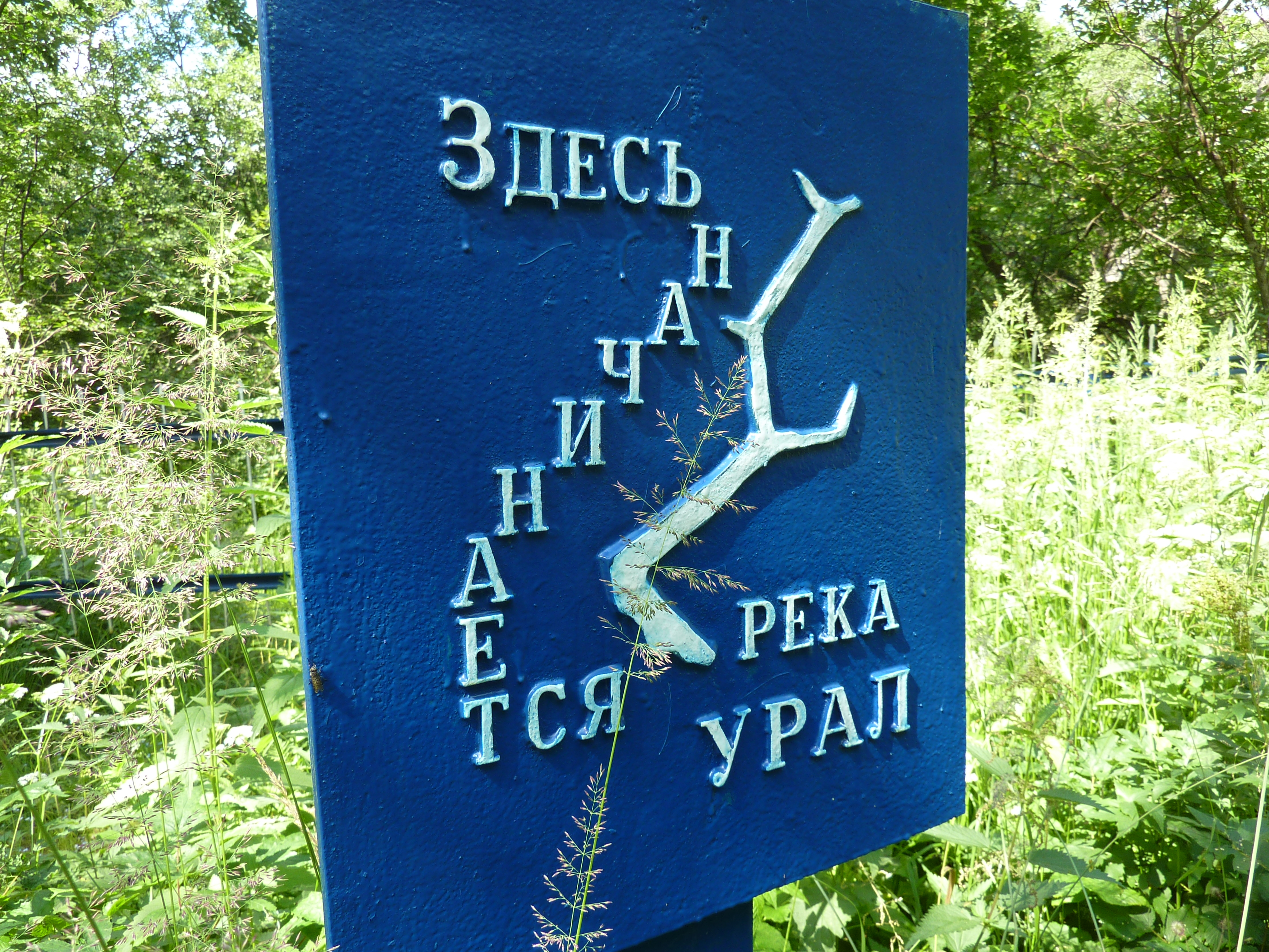 Memorial plaque at the source of the Ural River.